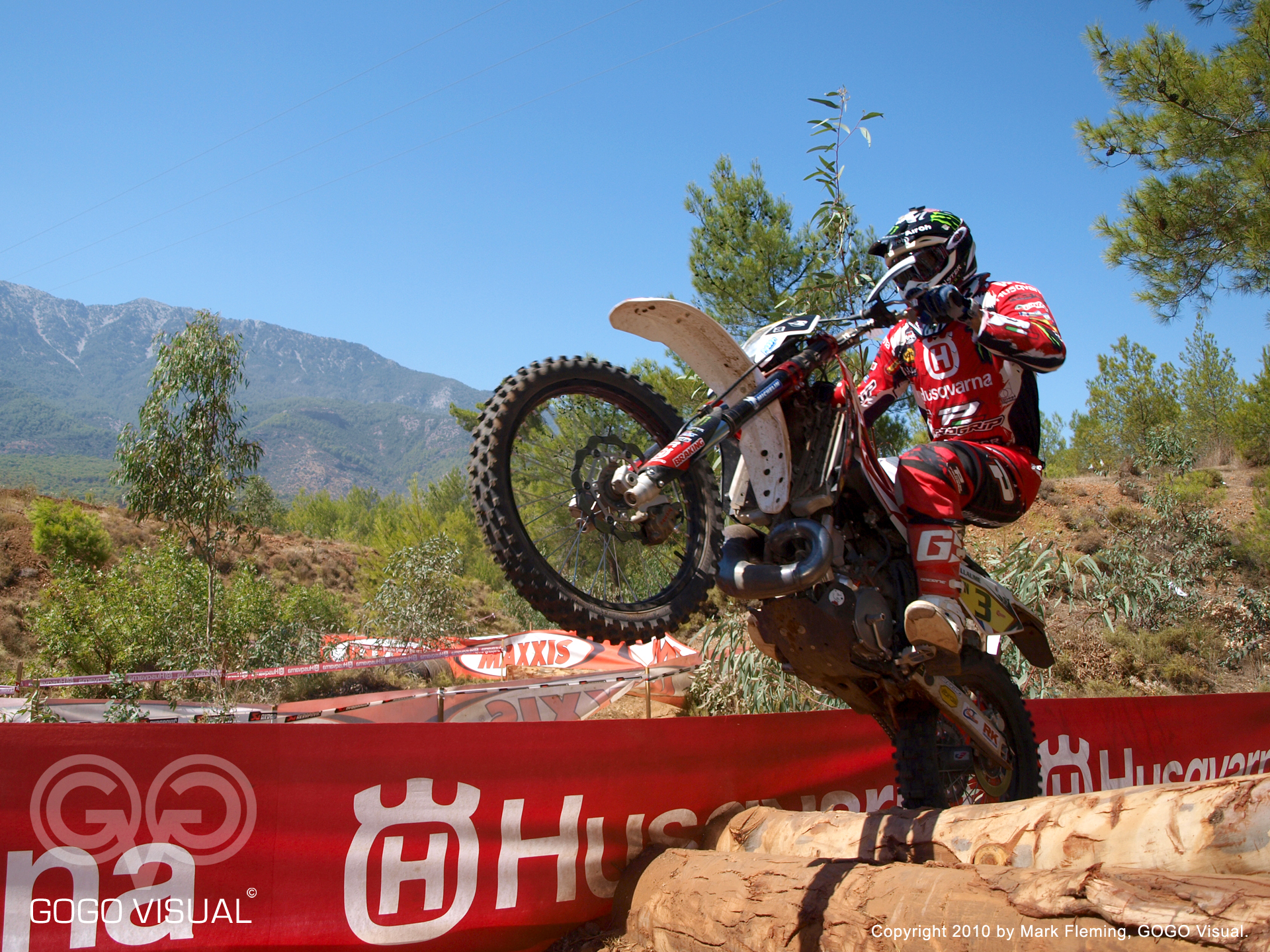 Sébastien Guillaume rides his Husqvarna E3 bike at the 2010 World Enduro Championship Grand Prix of Turkey.